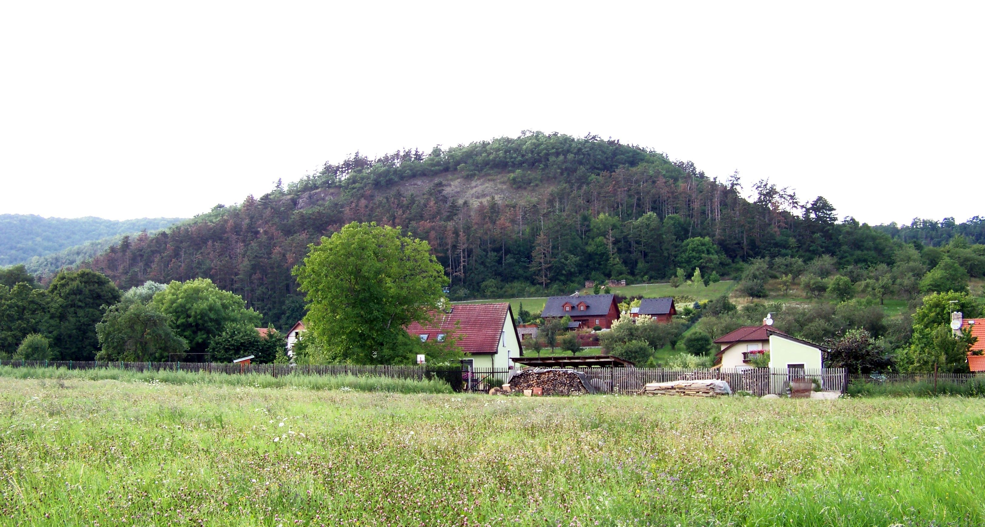 Trubín, Beroun District, Central Bohemian Region, the Czech Republic. Trubín Hill.